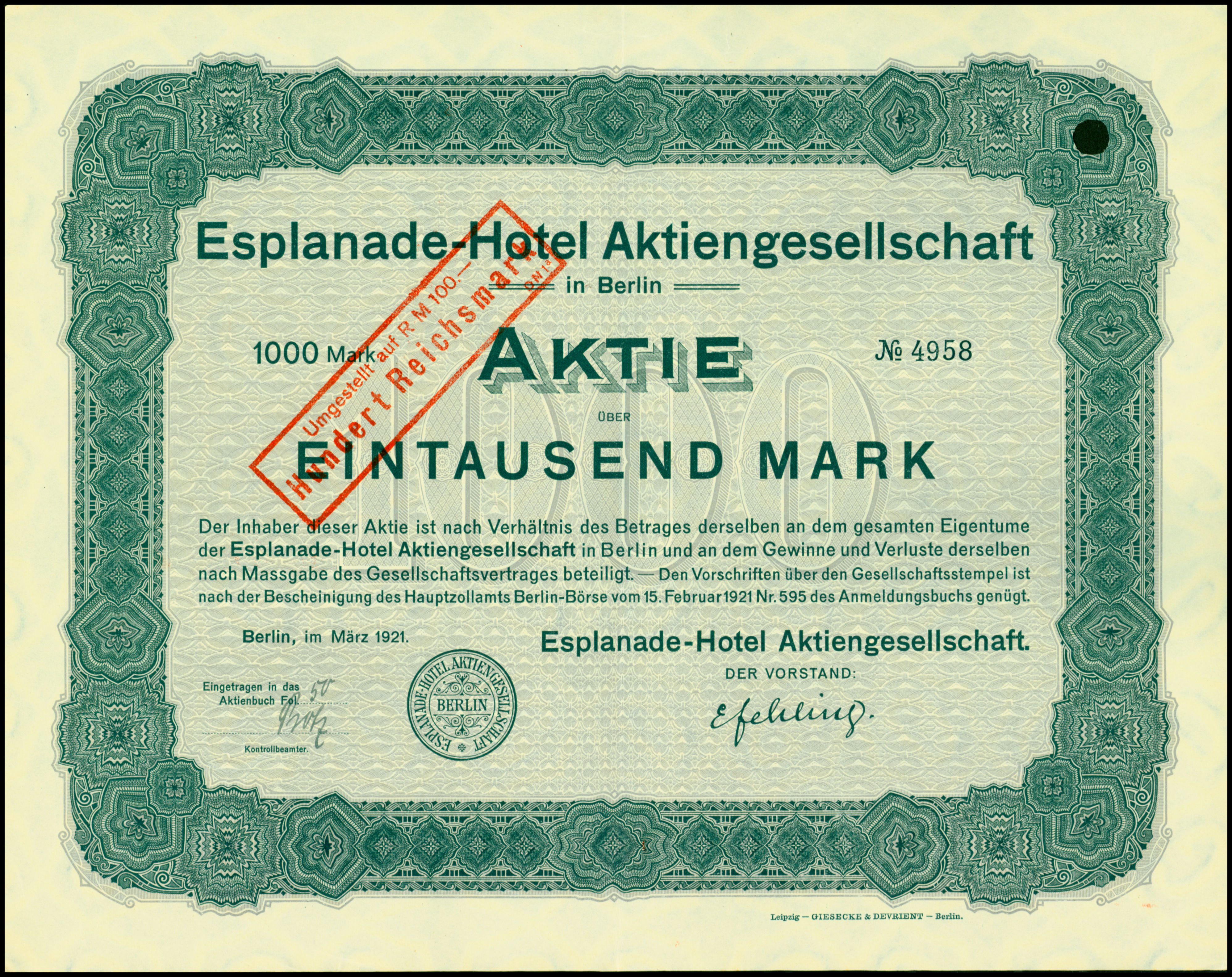 Share of the Esplanade-Hotel AG, issued March 1921